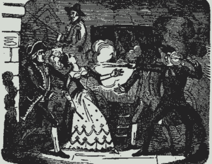 Woodcut of the Murder of Matha Ray.